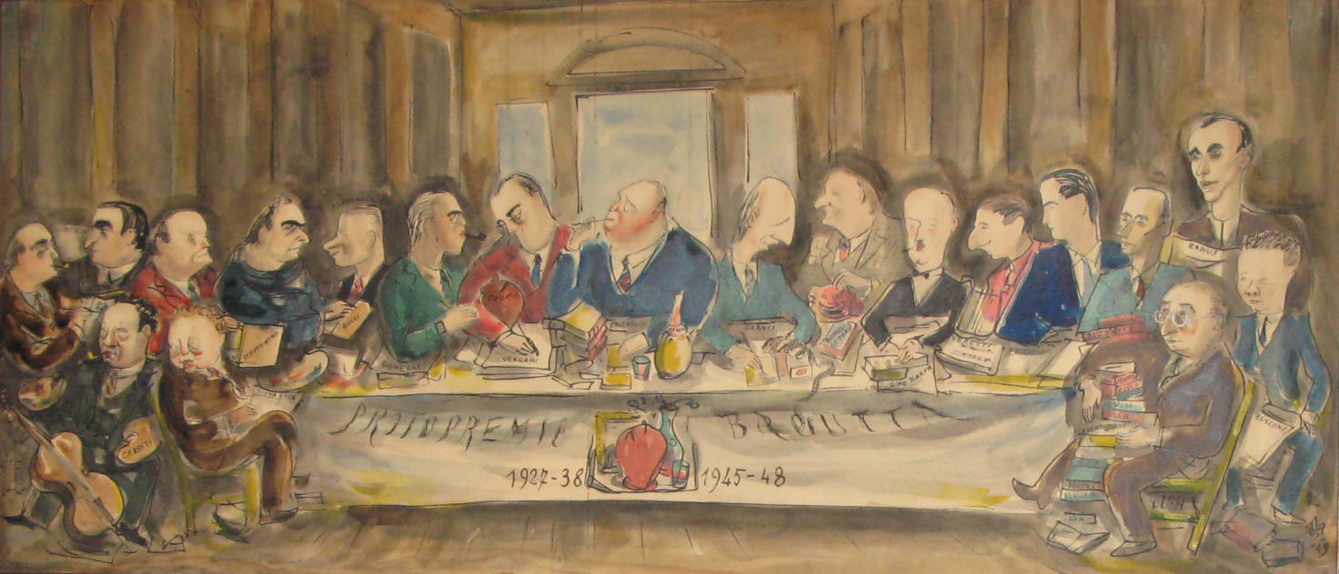 A caricature of Bagutta Prize ceremony